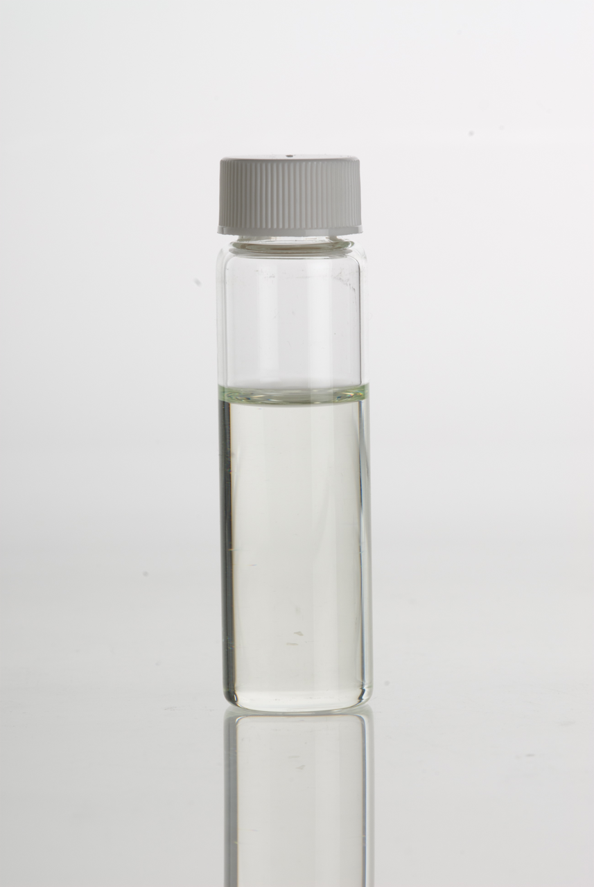 Tarragon (Artemisia dracunculus) Essential Oil in clear glass vial